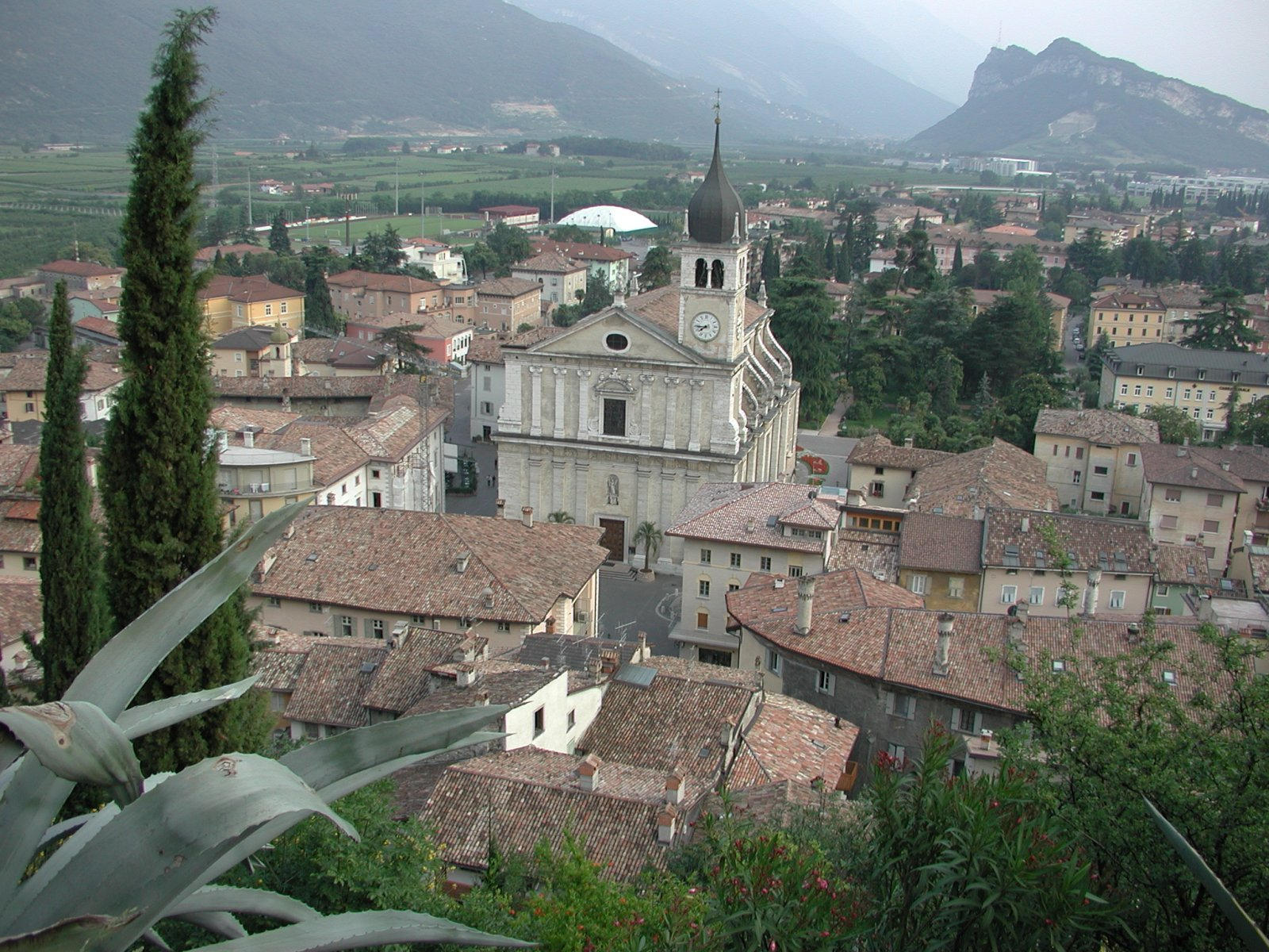 Church "Collegiata dell'Assunta" of Arco, Italy